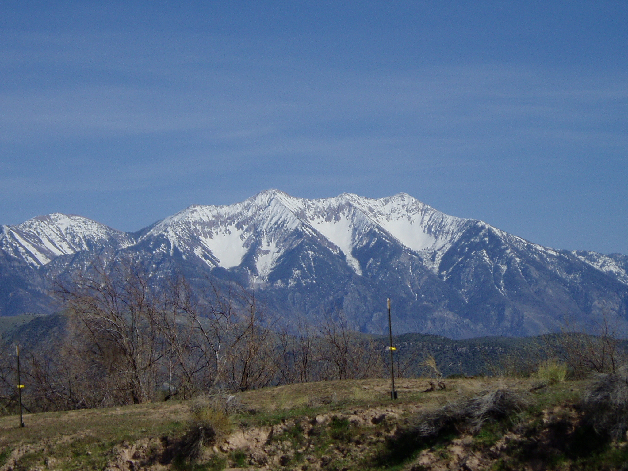 Mount Nebo, Utah, USA. I took this picture and release all rights. It was taken from the top of Y-Mountain.